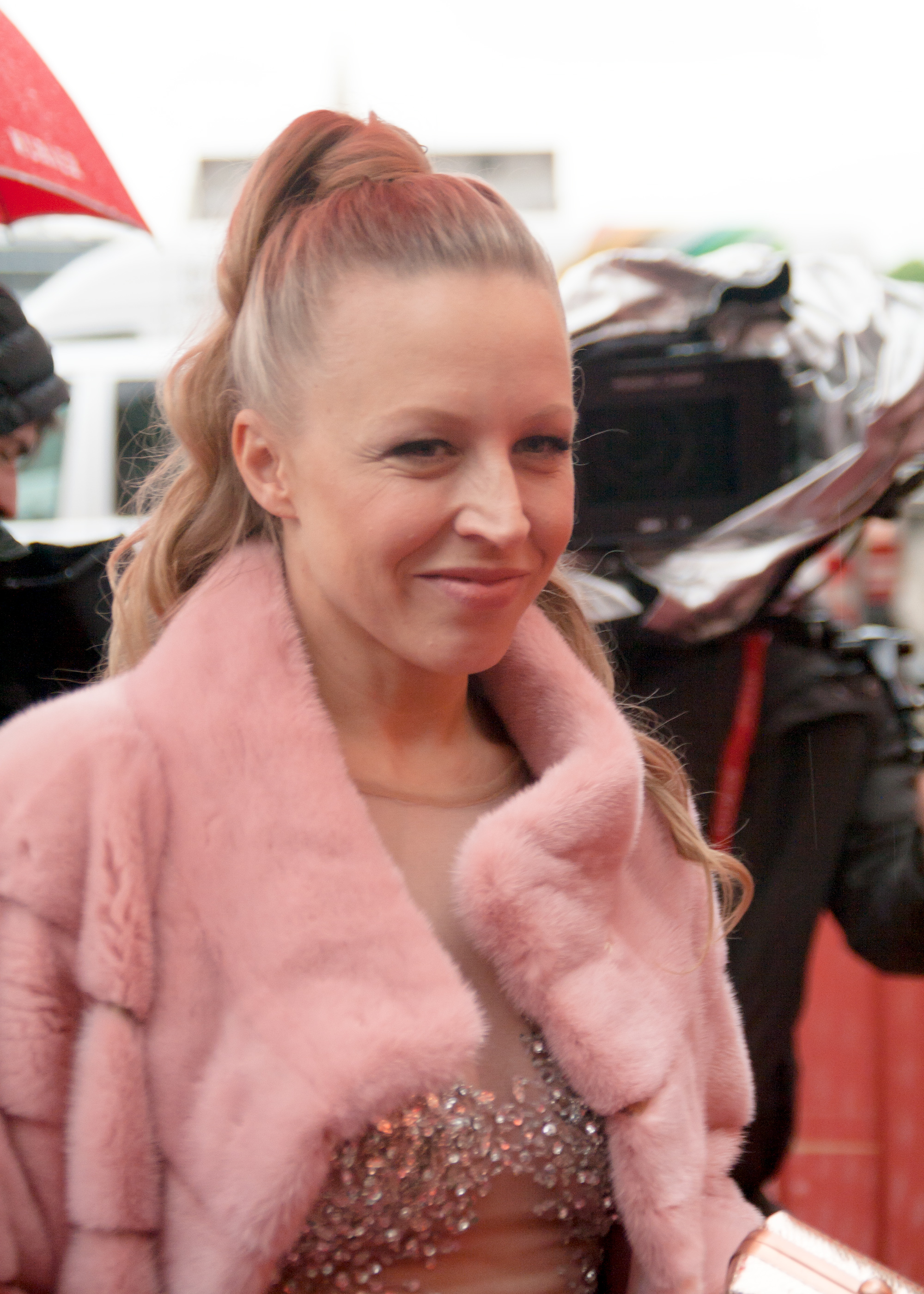 The arrival of Nina Proll on the red carpet of the Romy TV awards 2017 at Hofburg Palace in Vienna, Austria, which was also filmed for her movie Anna Fucking Molnar.